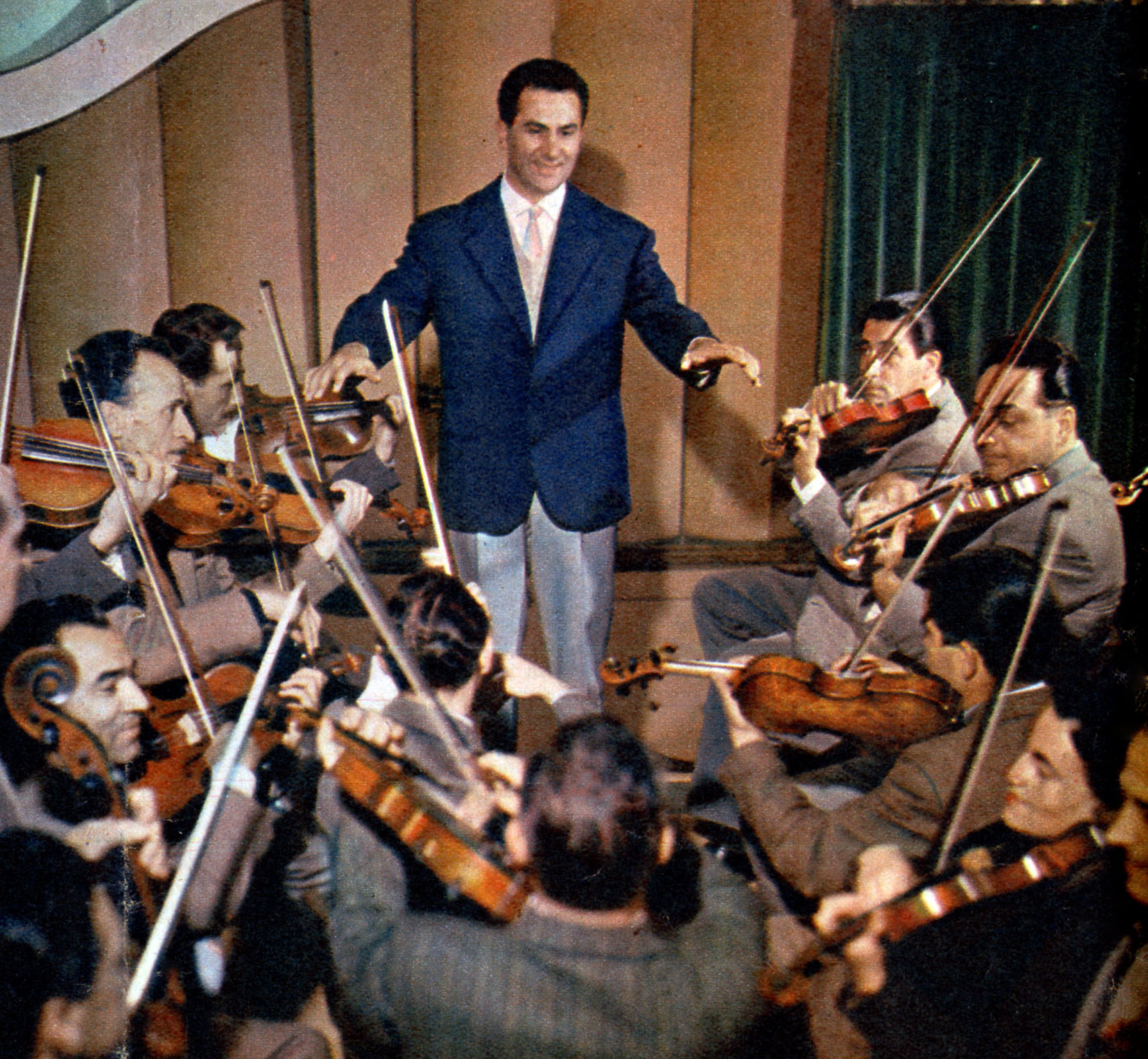 The Italian conductor Carlo Savina with the Orchestra of Rai - Radiotelevisione Italiana in 1956